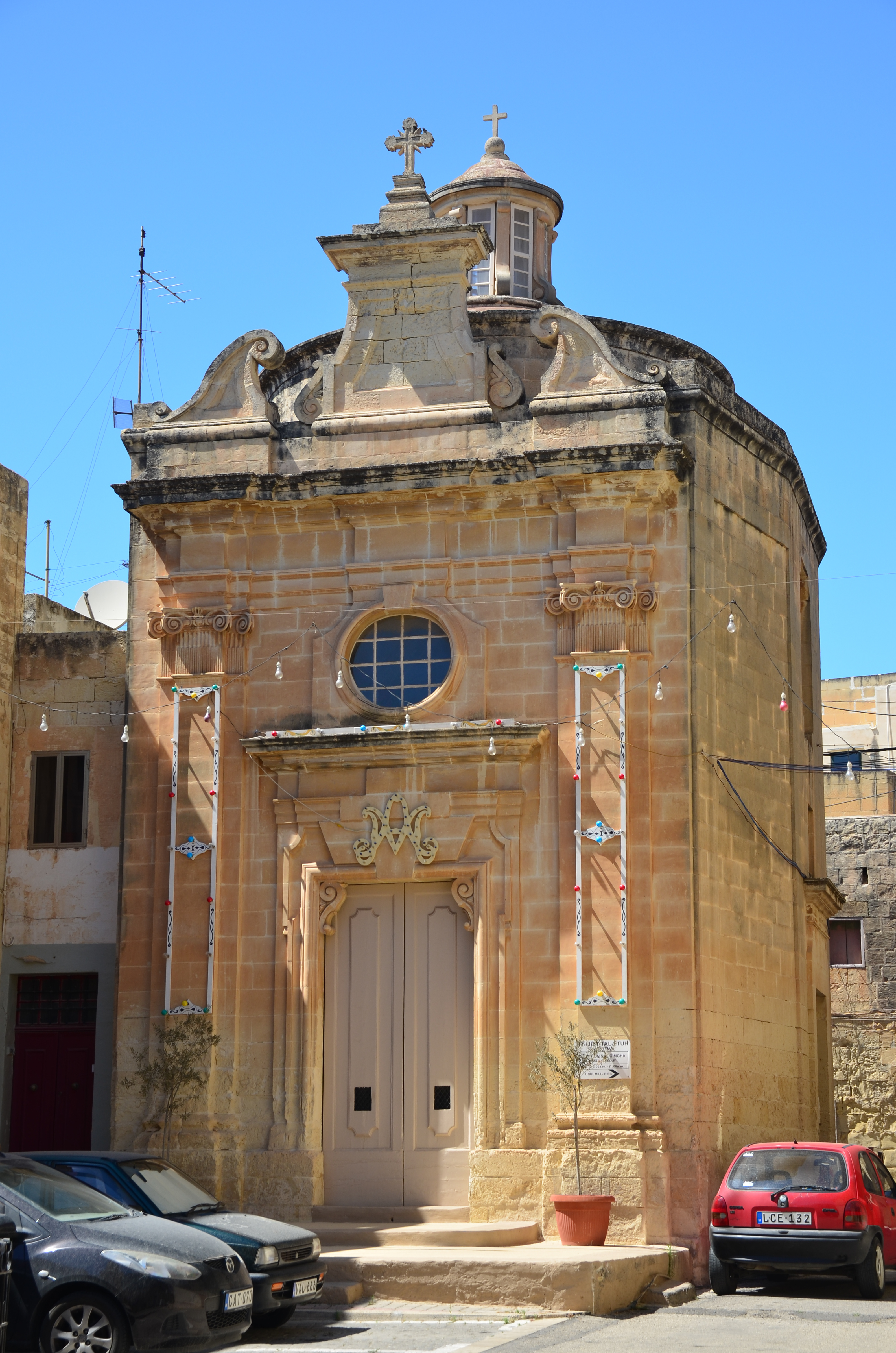 Church of St. Mary in Balzan, Malta